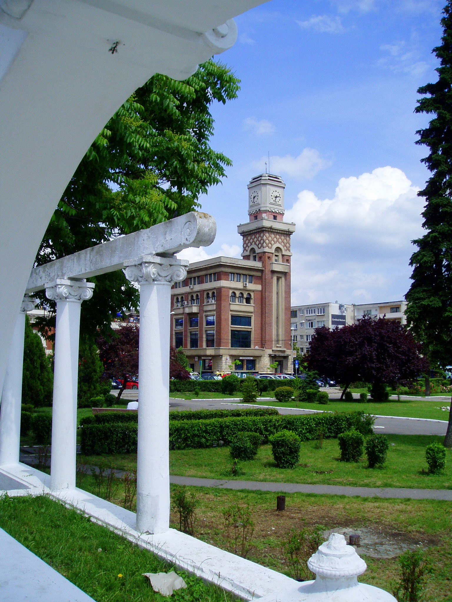 The Central Hall of Ploieşti, Romania. Architect: Toma T. Socolescu. This market place is located in the very heart of the city, strada Emile Zola, Ploieşti, Judeţul Prahova, Romania. It is classified historical monument. We are the only heirs and descendants of Toma T. Socolescu (died in 1960 in Bucharest) and therefore owner of all his intellectual rights.